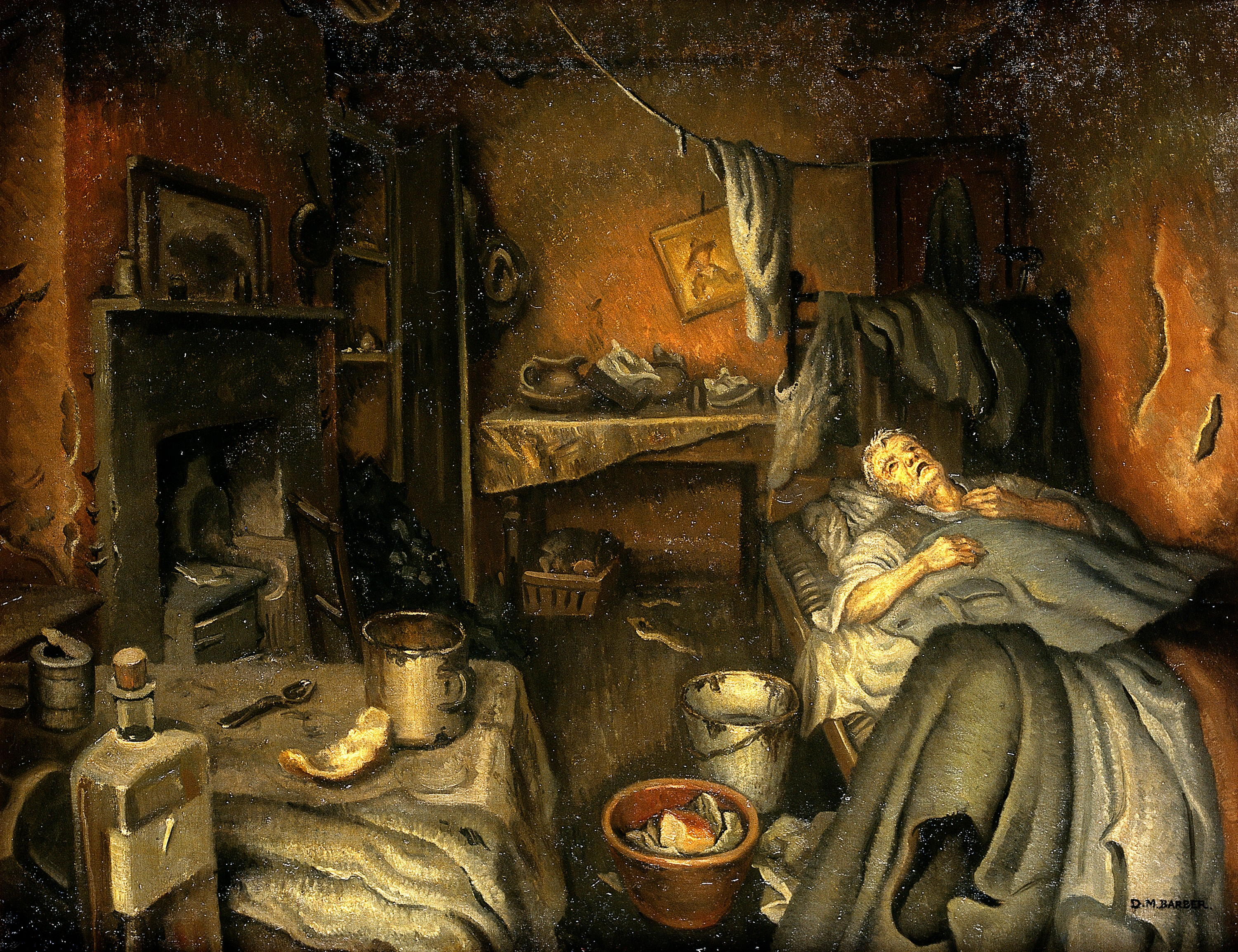 A patient at home. Oil painting by D. Mary Barber. Iconographic Collections